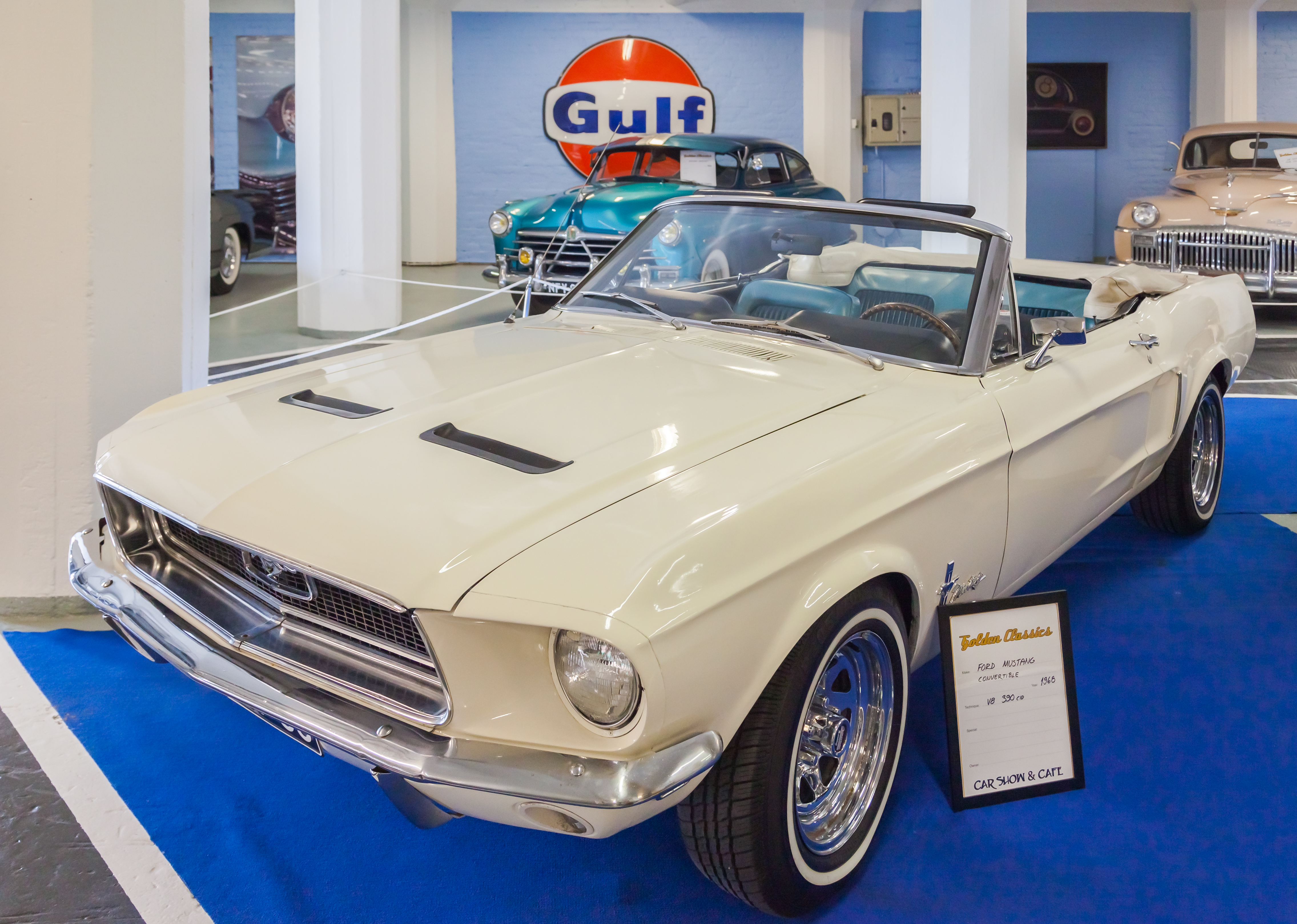 Ford Mustang Convertible of 1968, Helsinki, Finnland